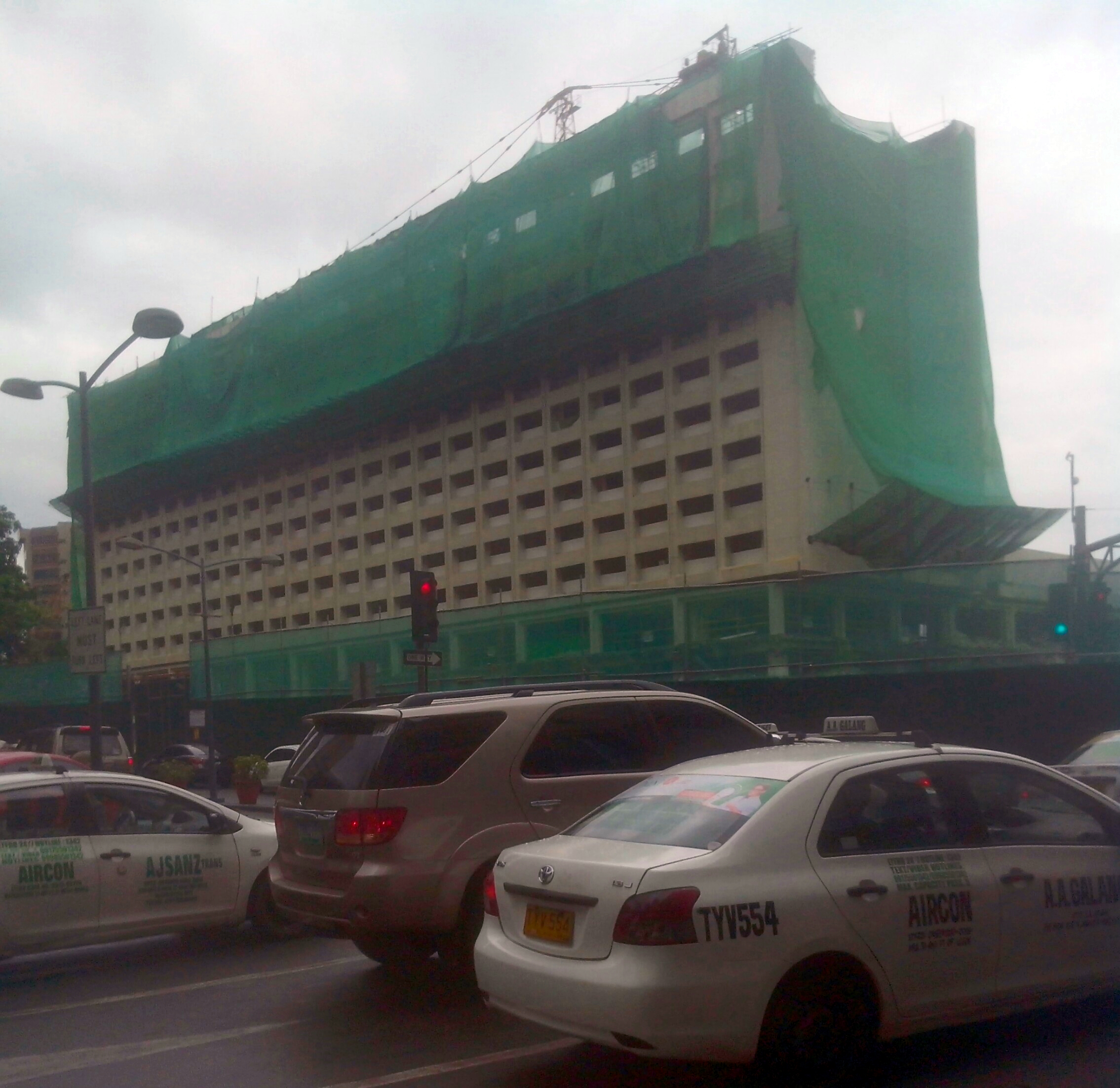 Demolition works of the InterContinental Manila.